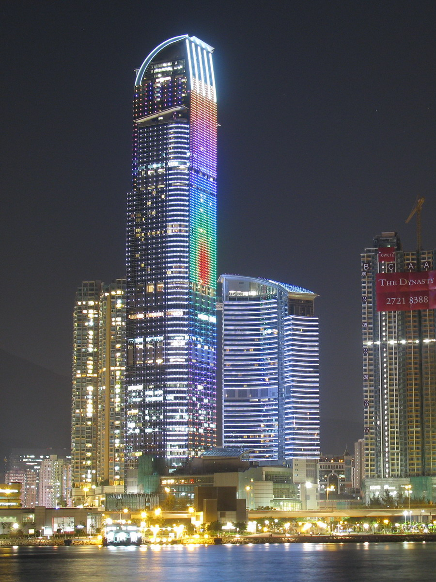 Night View of Nina Tower